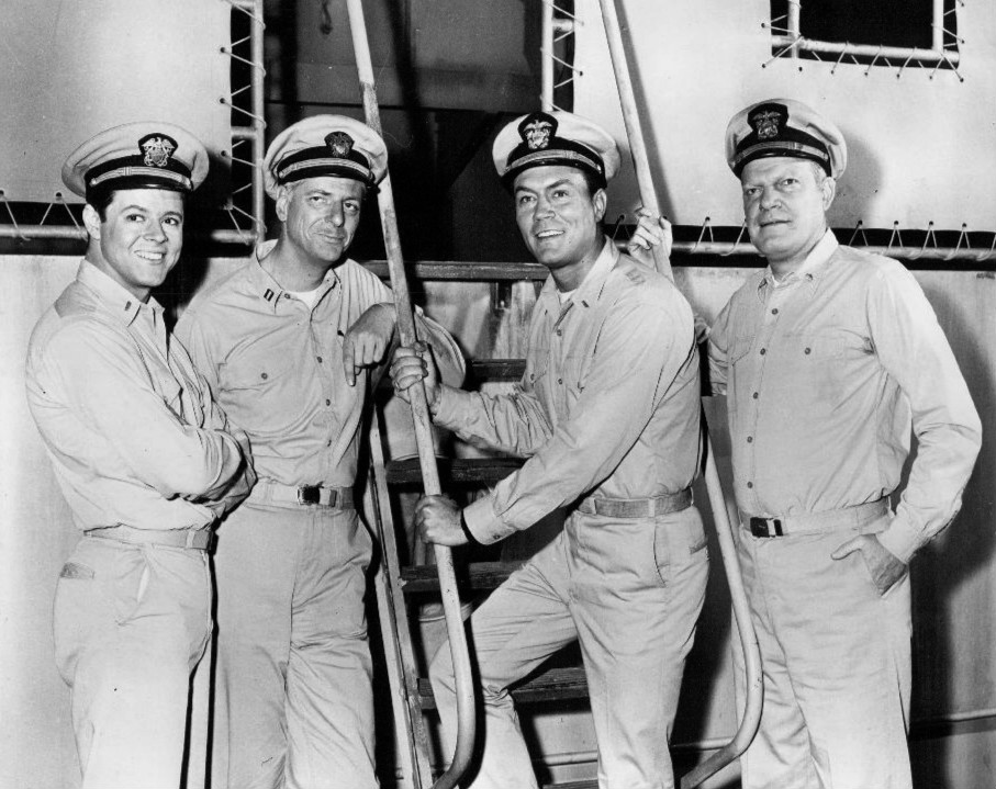 Cast photo from the television program Mister Roberts. From left-Steve Harmon, George Ives, Roger Smith, and Richard X. Slattery.